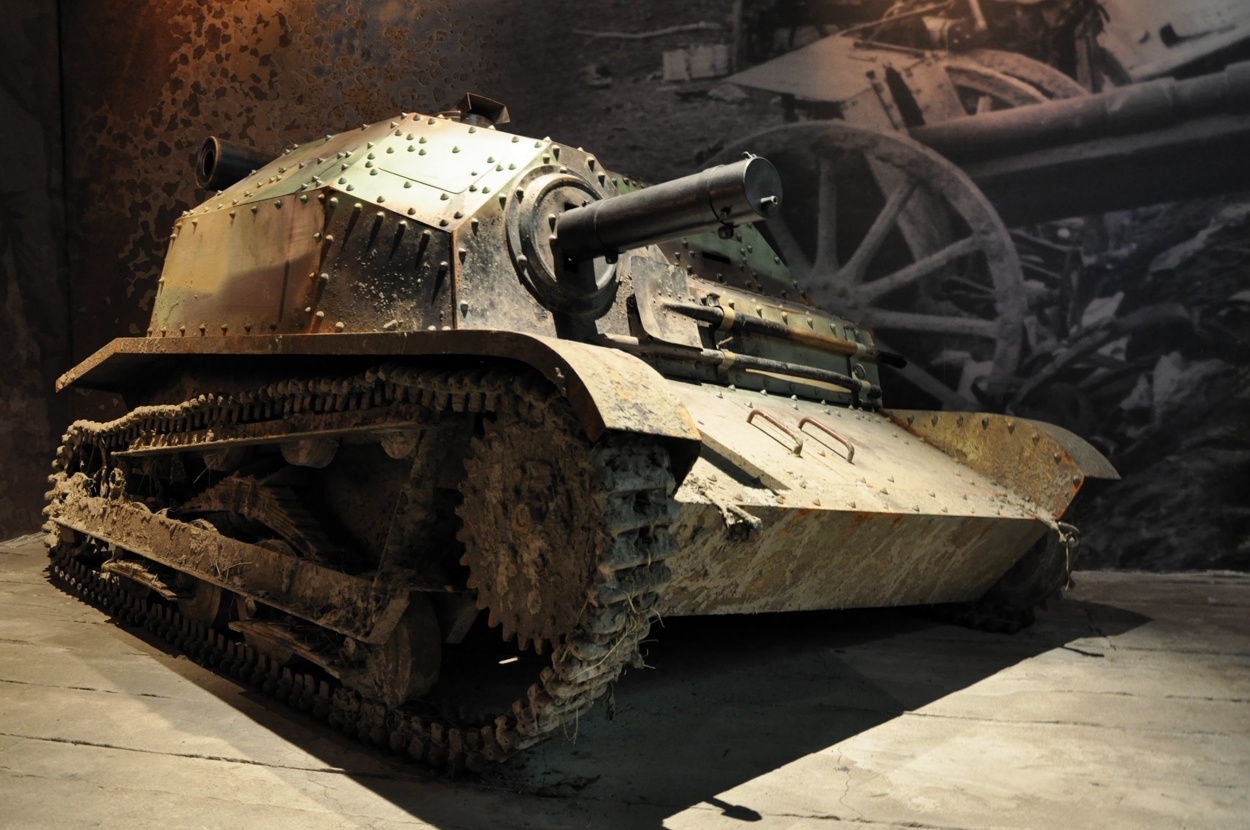 The Polish 1939 TKS tankette at the exhibition Kraków under Nazi Occupation 1939–1945 in the Schindler's Factory in Kraków.